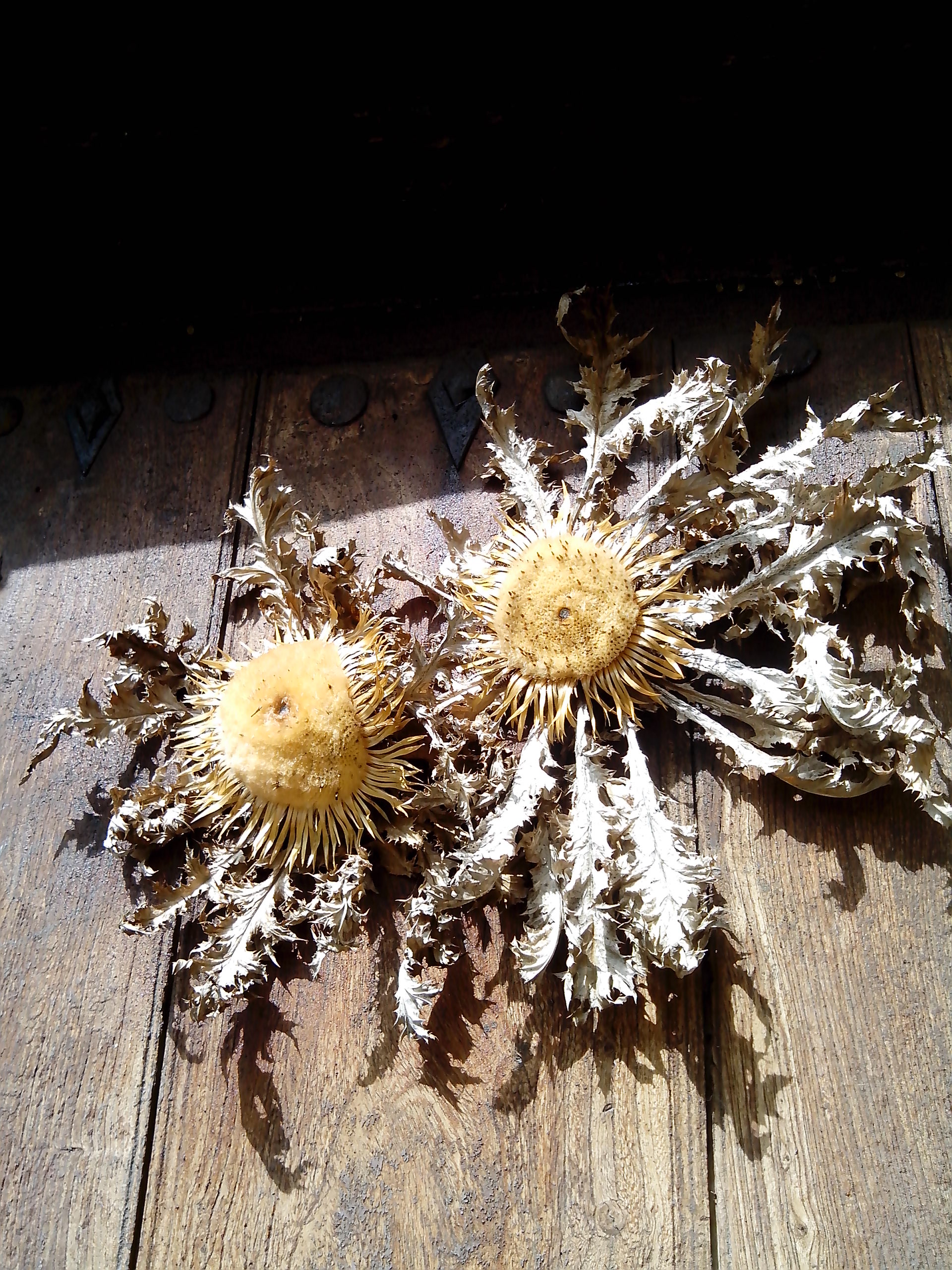 La flor del Sol.